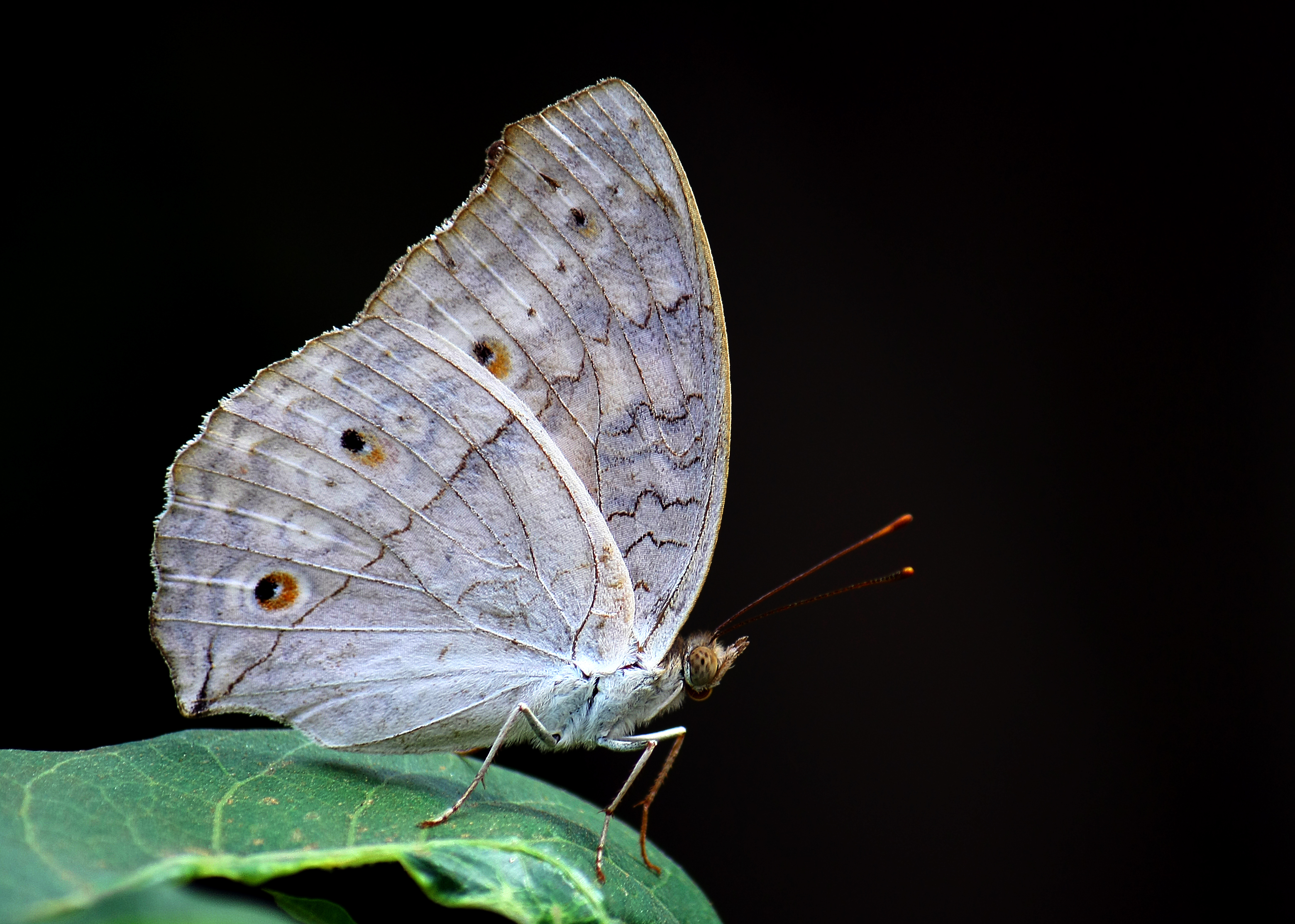 Underside of gray pansy or grey pansy (Junonia atlites). Found in Batticaloa, Eastern Sri Lanka